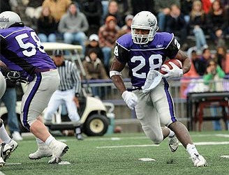 Jamall Lee